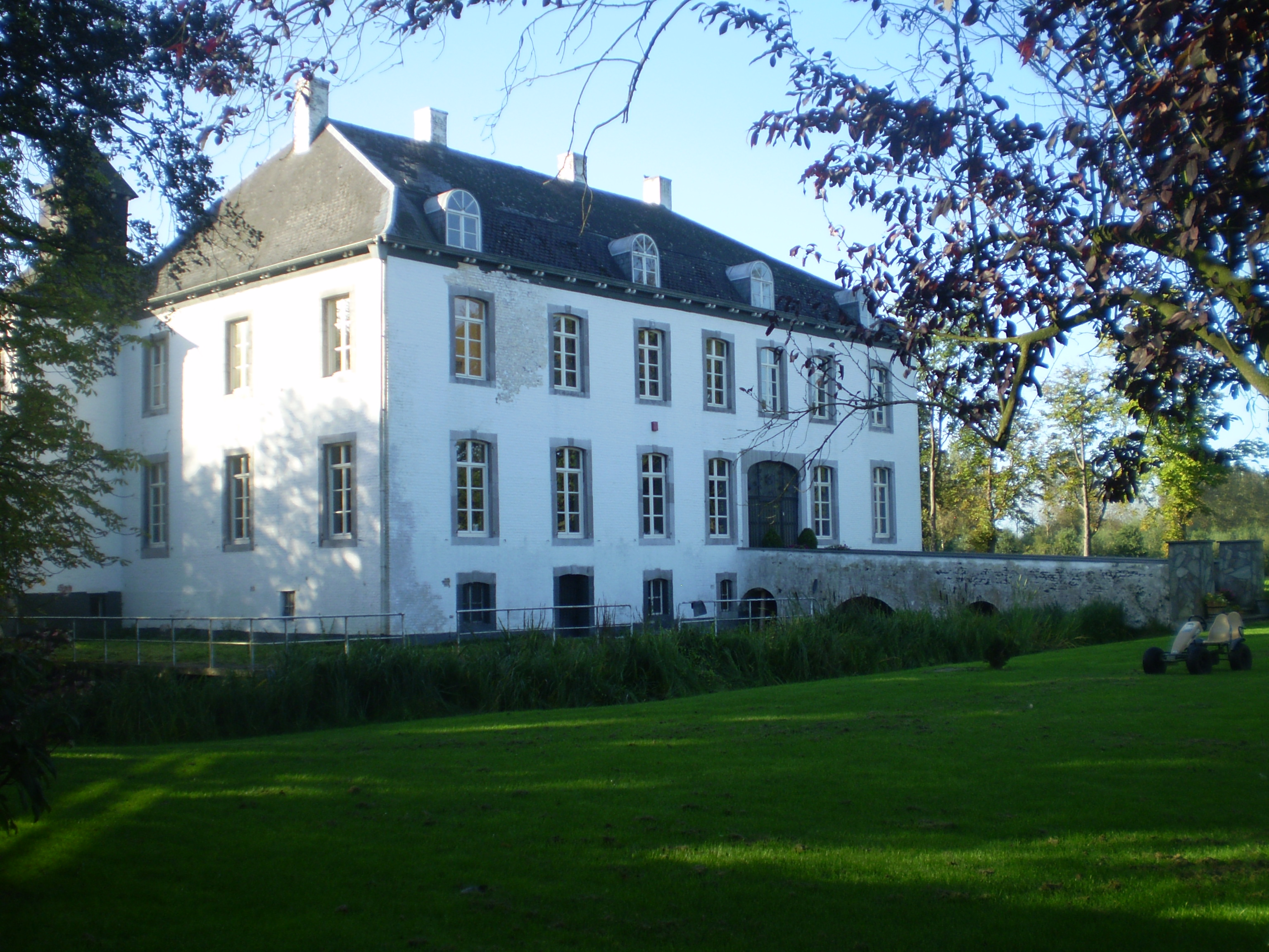 Borgitter castle in Kessenich (Belgium)